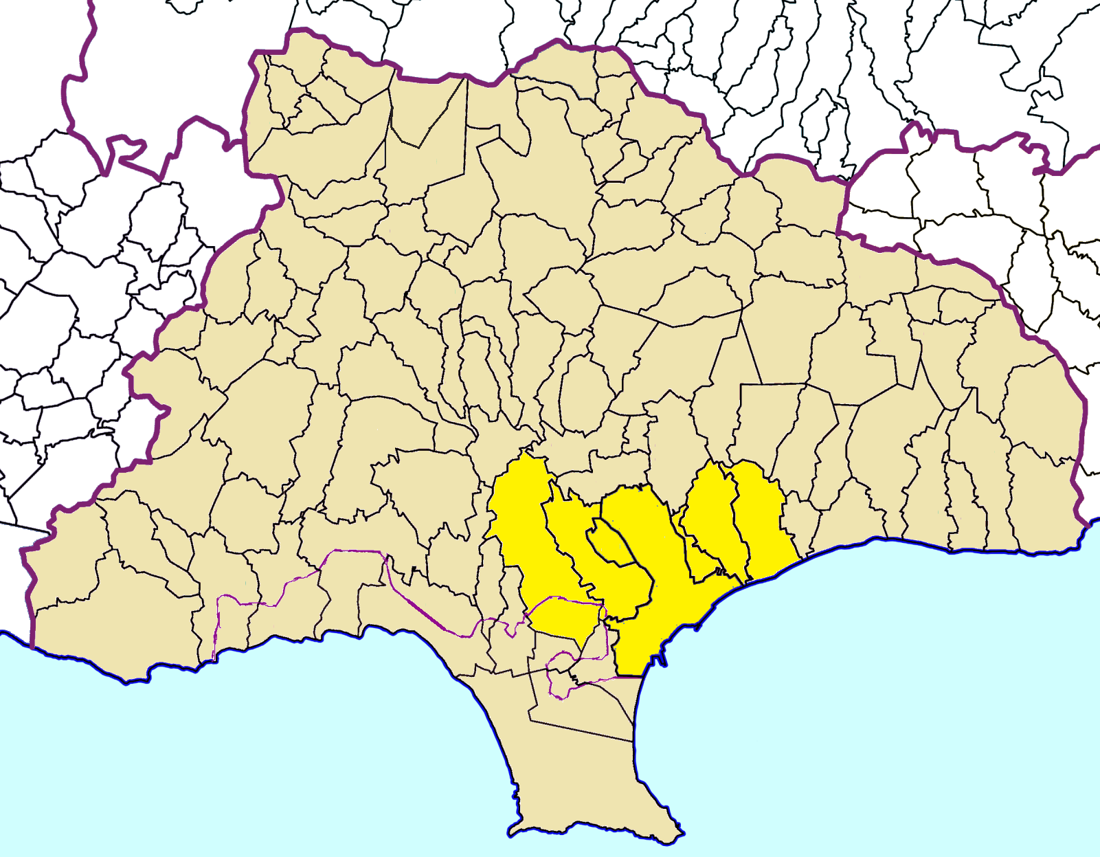 Limassol in Limassol District.